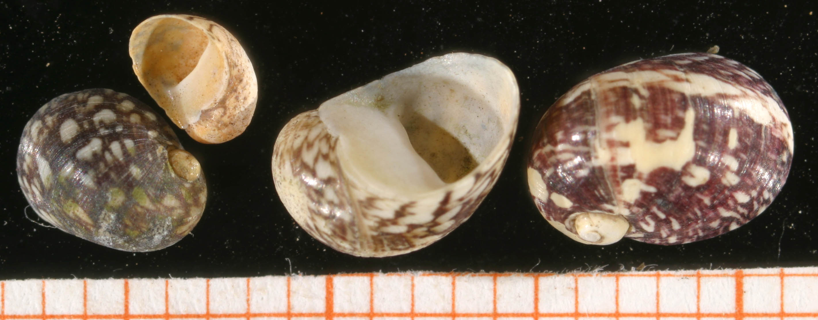 Photo of Theodoxus fluviatilis. Scale in mm. Locality: Germany: Schleswig-Holstein, Wittensee. Date: 09-1968.